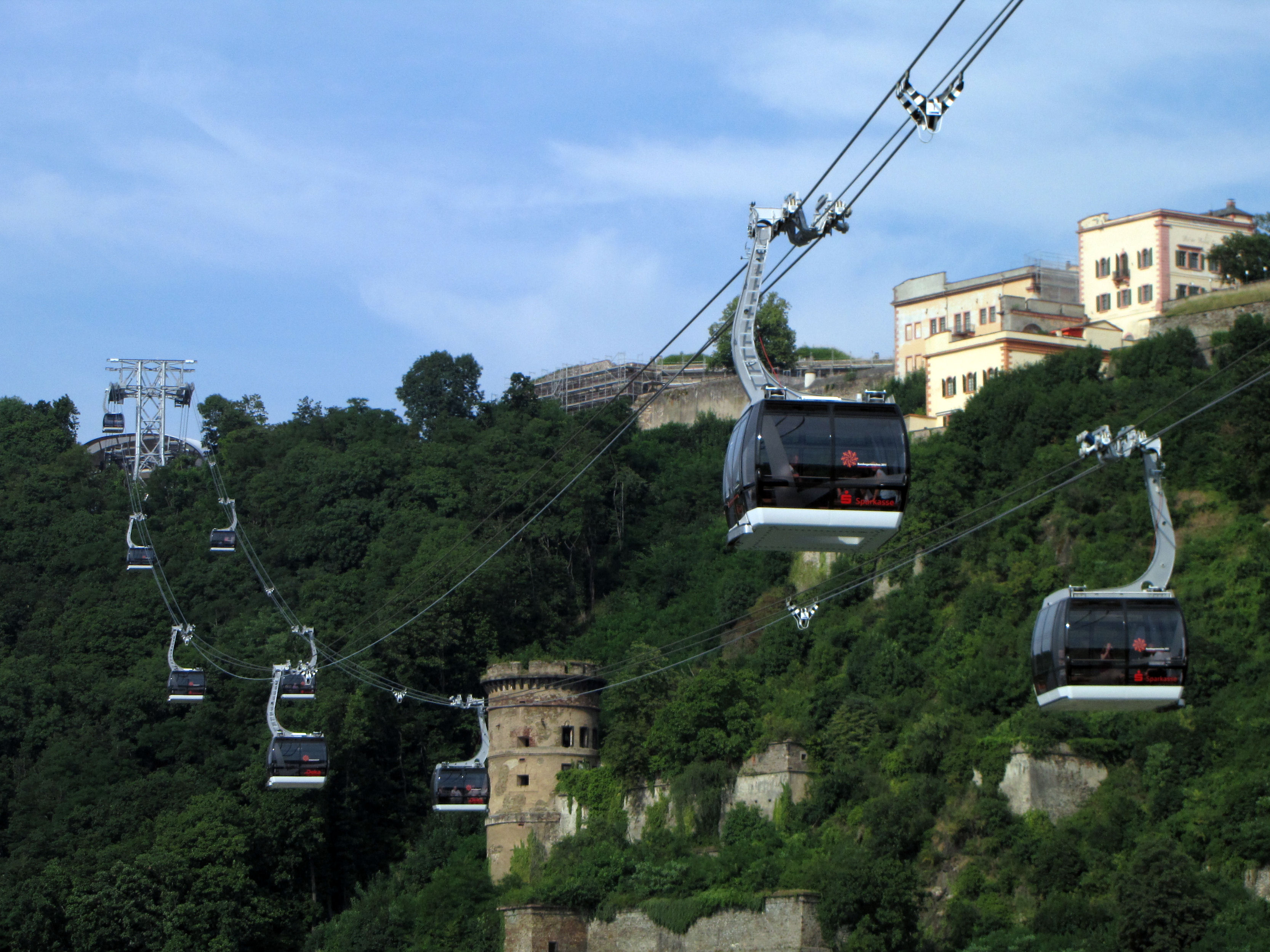 The National Garden Show 2011 in Koblenz - Opening of the Koblenz Cable Car